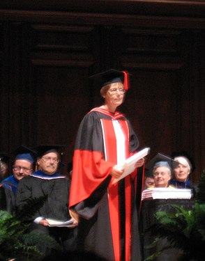 Caroline Haythornthwaite receiving an Information Systems/Technologies Award, May 13th 2007.